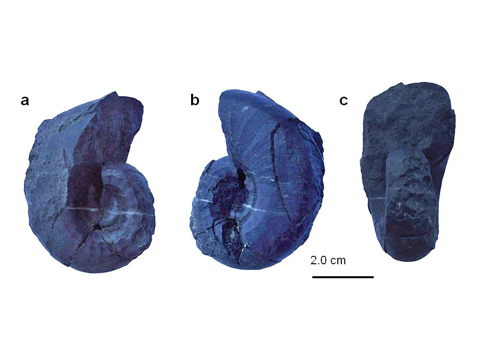 Specimen of Germanonautilus, a nautiloid from late Anisian of northern Italy (Prezzo Limestone-Southern Lombardian Alps).